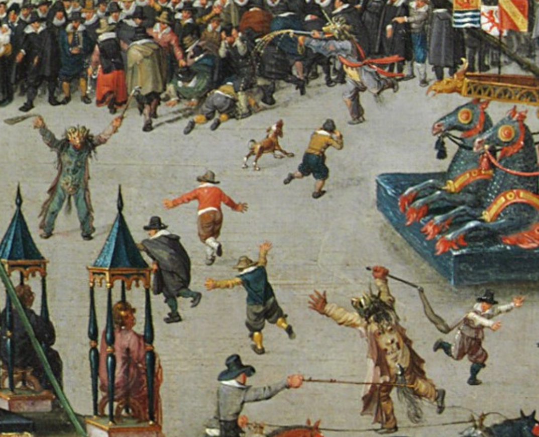 Demons teasing the spectators with fire clubs. Detail of the 5th painting in Alsloots Ommegang series.